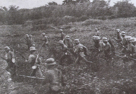 Chinese troops making a charge in Luodian, a suburban town of Shanghai, in 1937